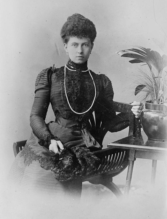 Sophia of Prussia, duchess of Sparta and future queen of Greece